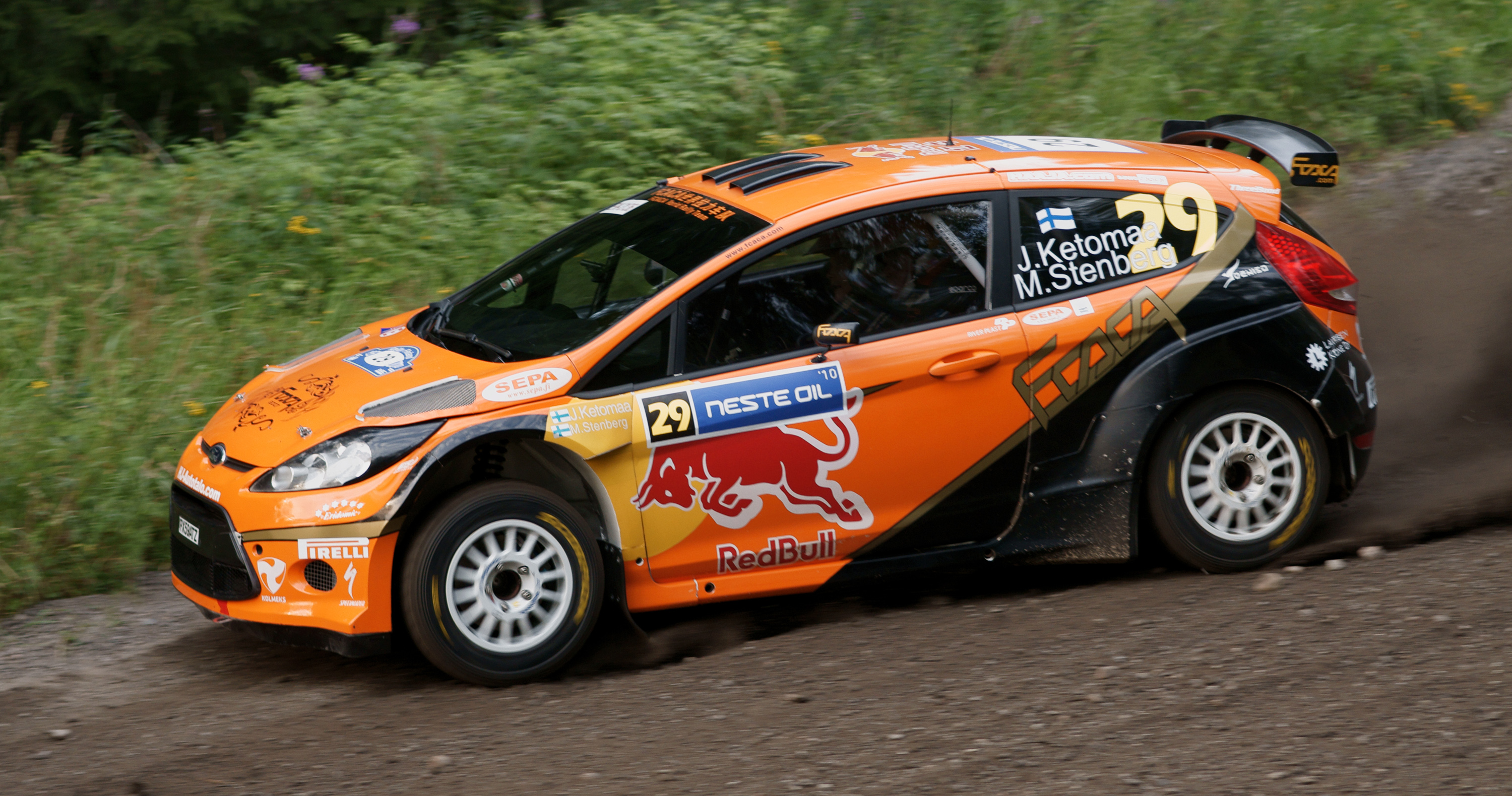 Jari Ketomaa driving at Laajavuori special stage, Rally Finland 2010.